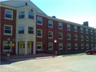 front view